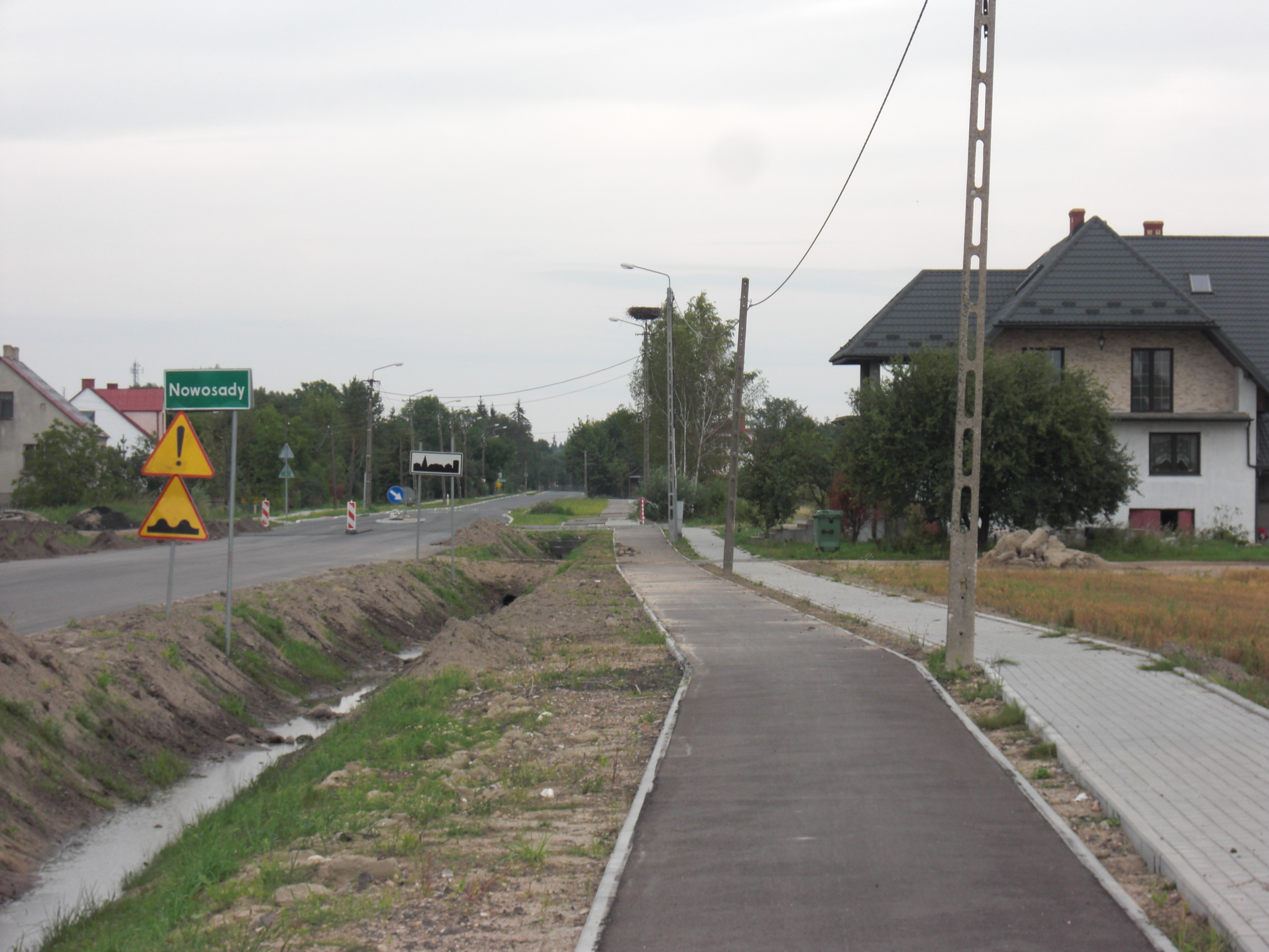 Nowosady k. Hajnówki